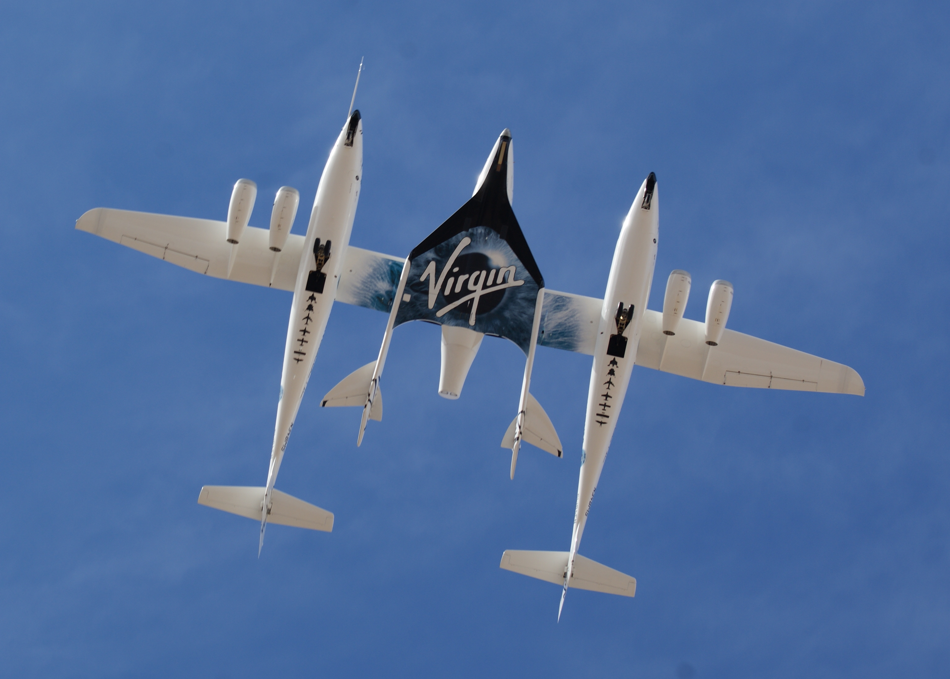 White Knight Two and SpaceShipTwo directly overhead during a flyby at Spaceport America. The Virgin Galactic logo is clearly visible on the underside of SS2.